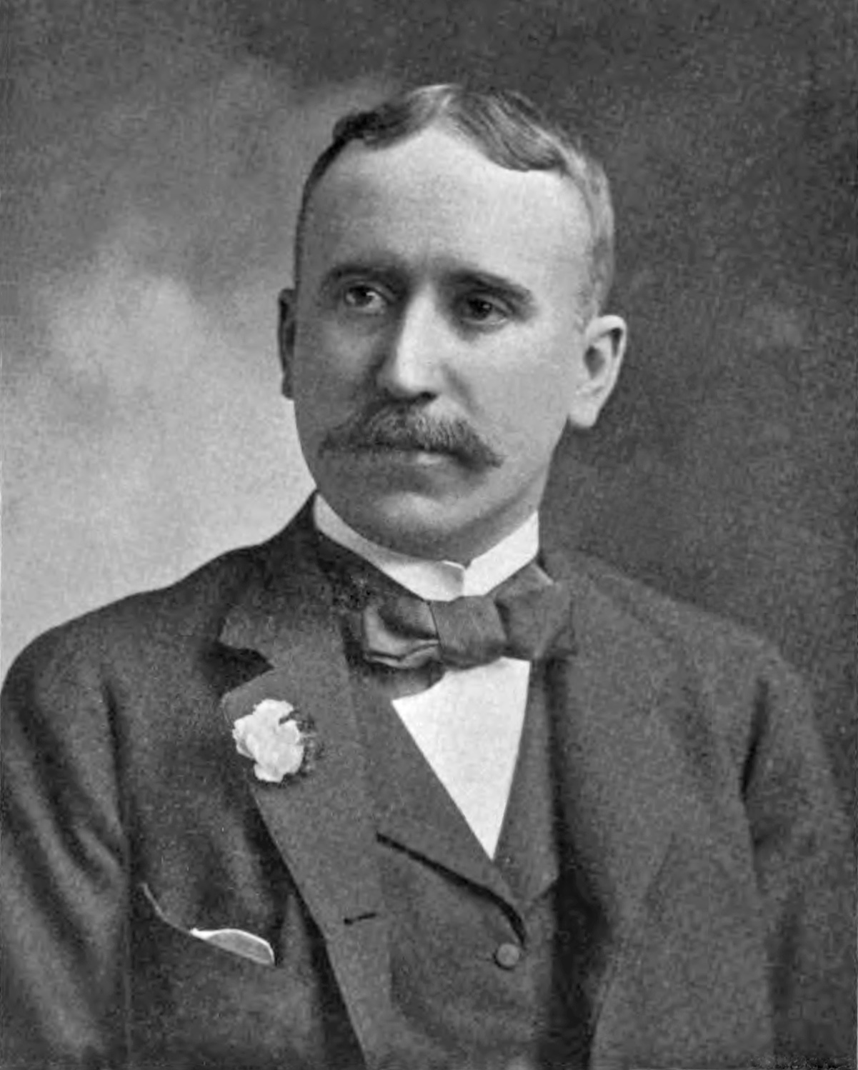 William Grigsby McCormick (1851–1941), whose father William Sanderson McCormick (1815–1865) was one of the founders of McCormick Harvester, which merged in 1902 with the Deering Harvester Company founded by William Deering and others to form International Harvester Corporation. He founded Kappa Sigma Fraternity, and owned insurance and real estate businesses before becoming a member of the New York Stock Exchange.